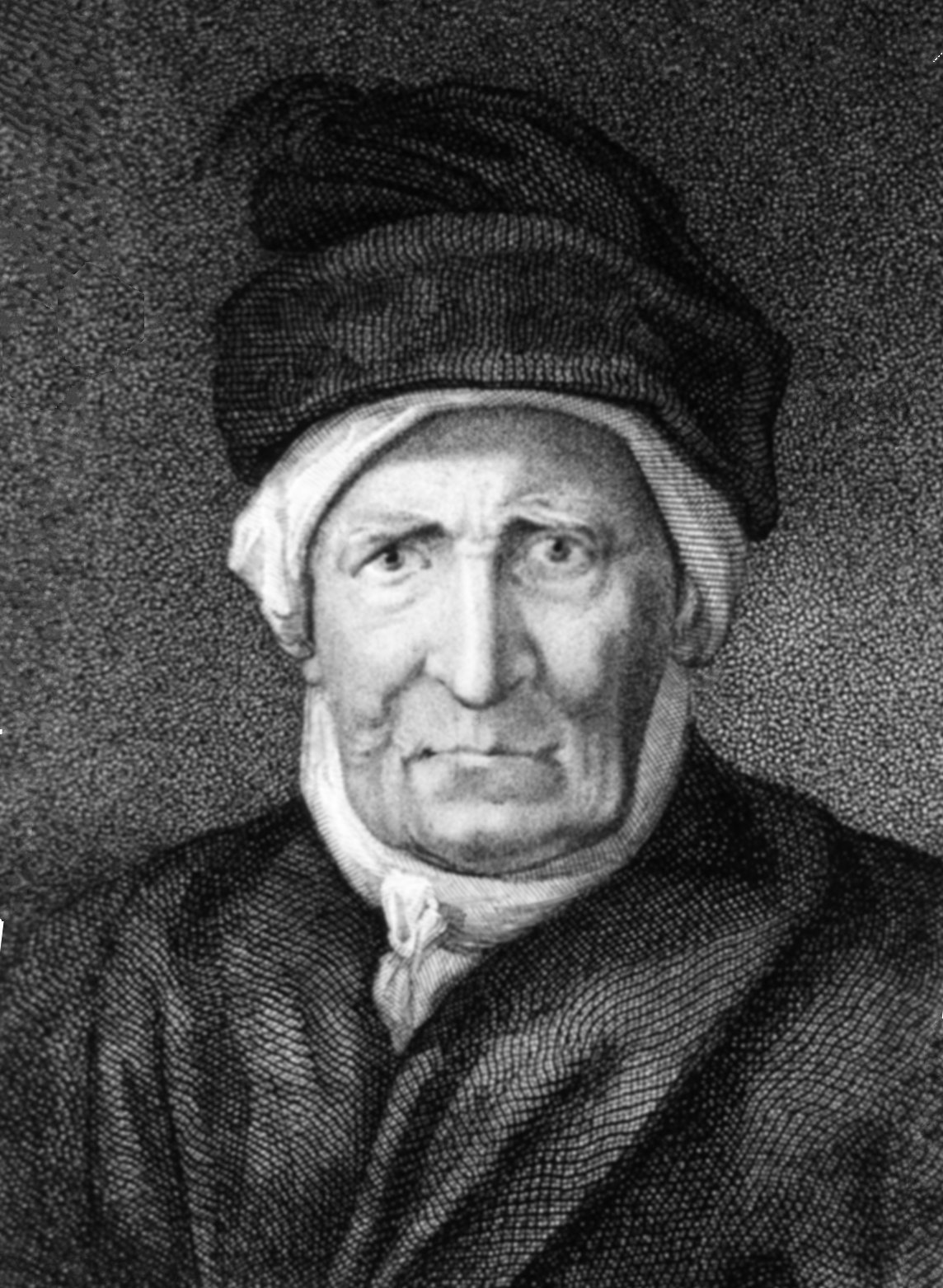 Henry Owen (1716 – 14 October 1795)